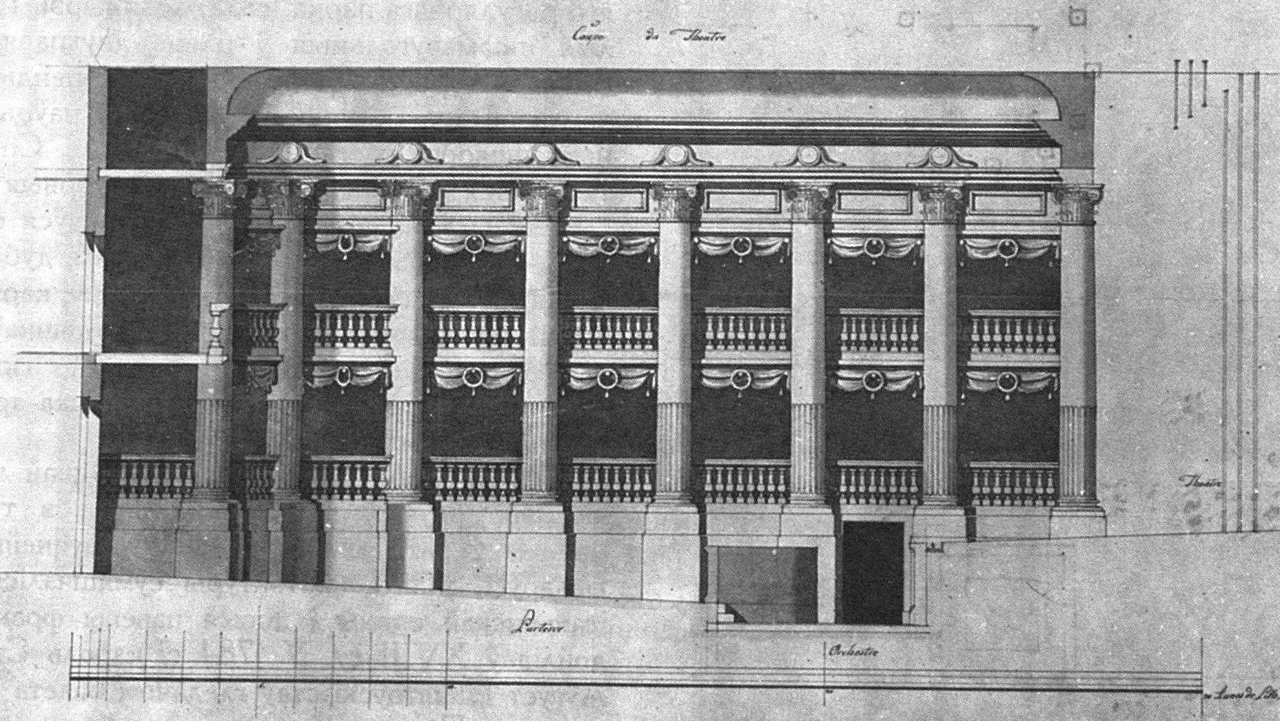 Projekt of Palace of Sapieha (Ruzhany, Belarus)